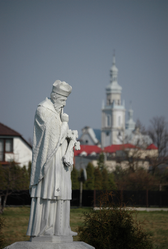 St. John Nepomucen - Chelm Slaski, Poland